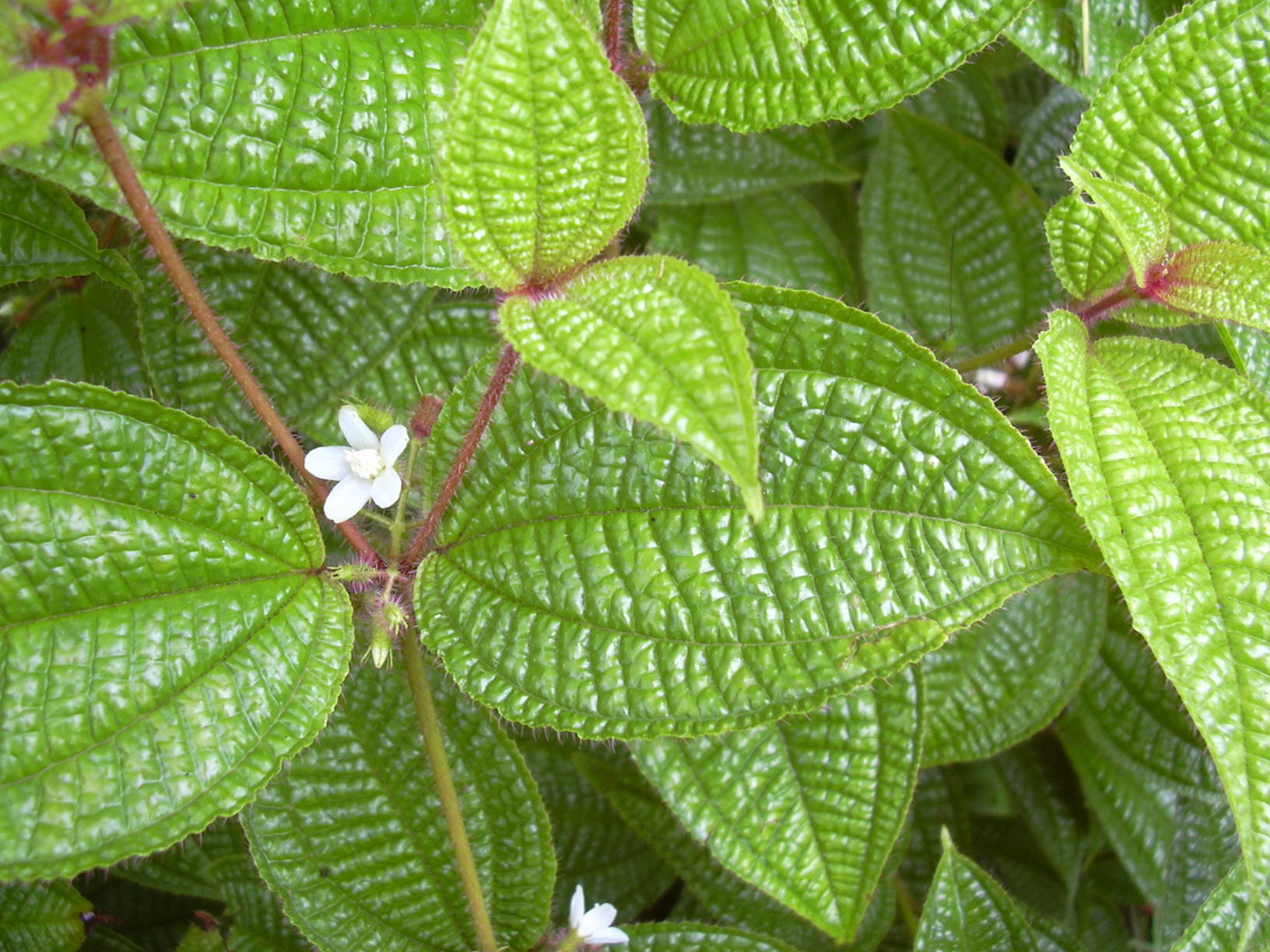 Clidemia hirta (leaves and flower). Location: Maui, Hanawi stream